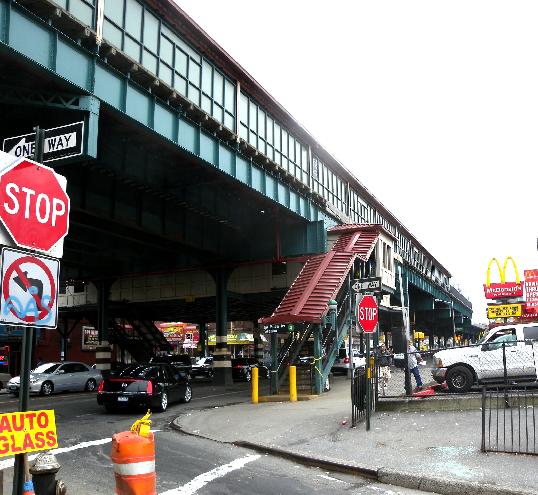 Looking south at Mount Eden Avenue (IRT Jerome Avenue Line) western stair on a cloudy midday.